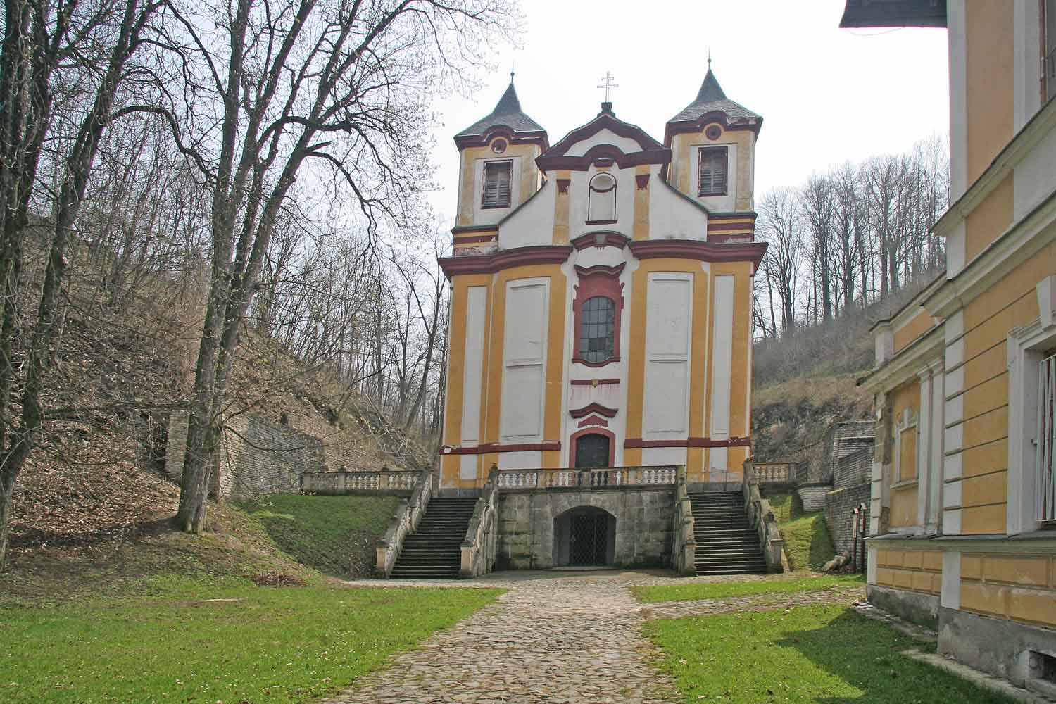 St Nicholas church in Vraclav, Czech Republic